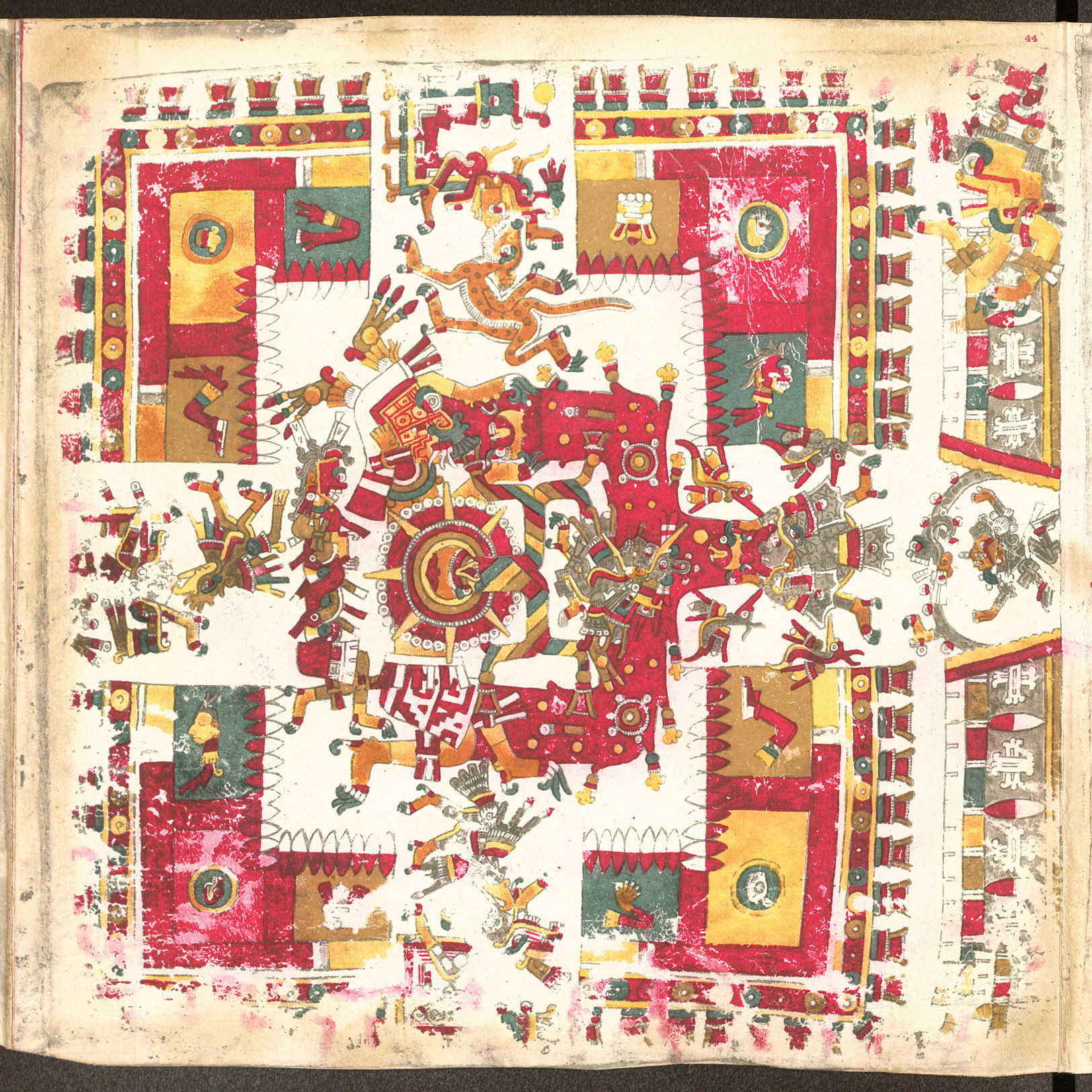 Page 44 of the Codex Borgia.